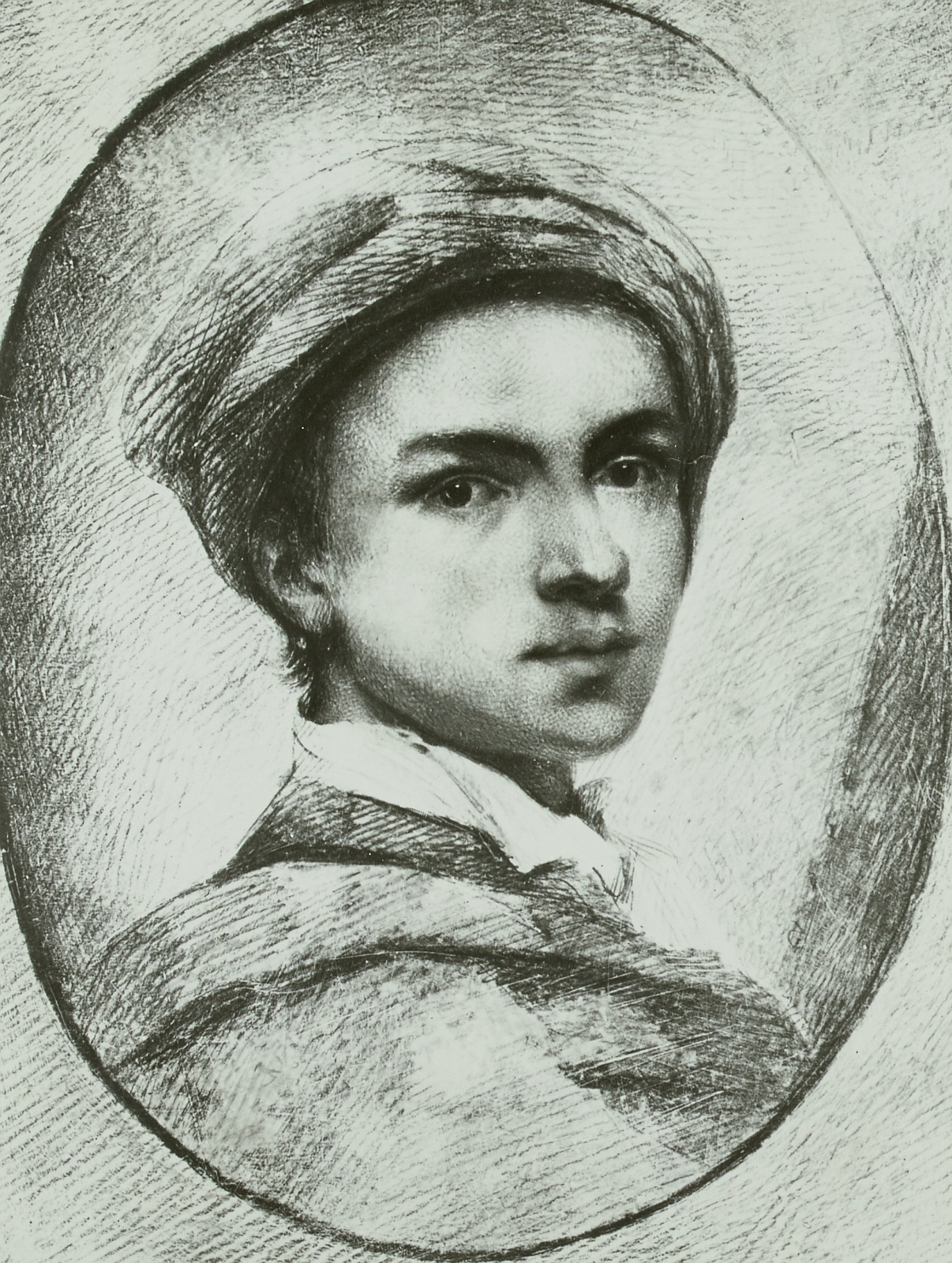 Depicted person: Johann Christian Bach